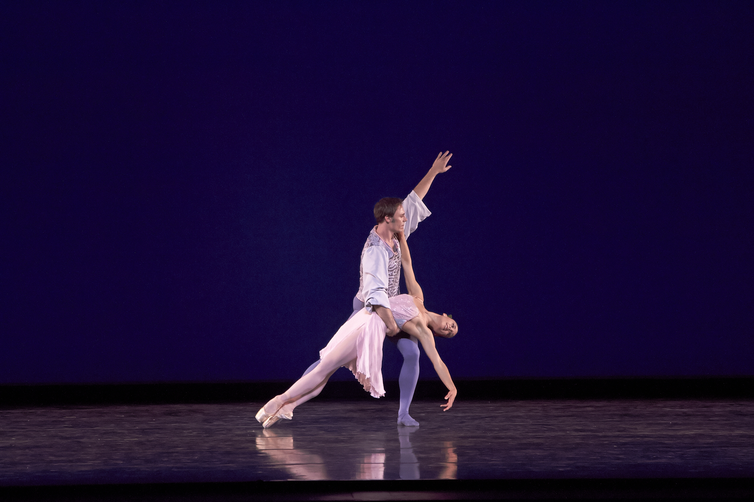 'Allegro Brillante' by George Balanchine Dancers Tempe Ostergren and Anthony Krutzkamp Photographer Steve Wilson